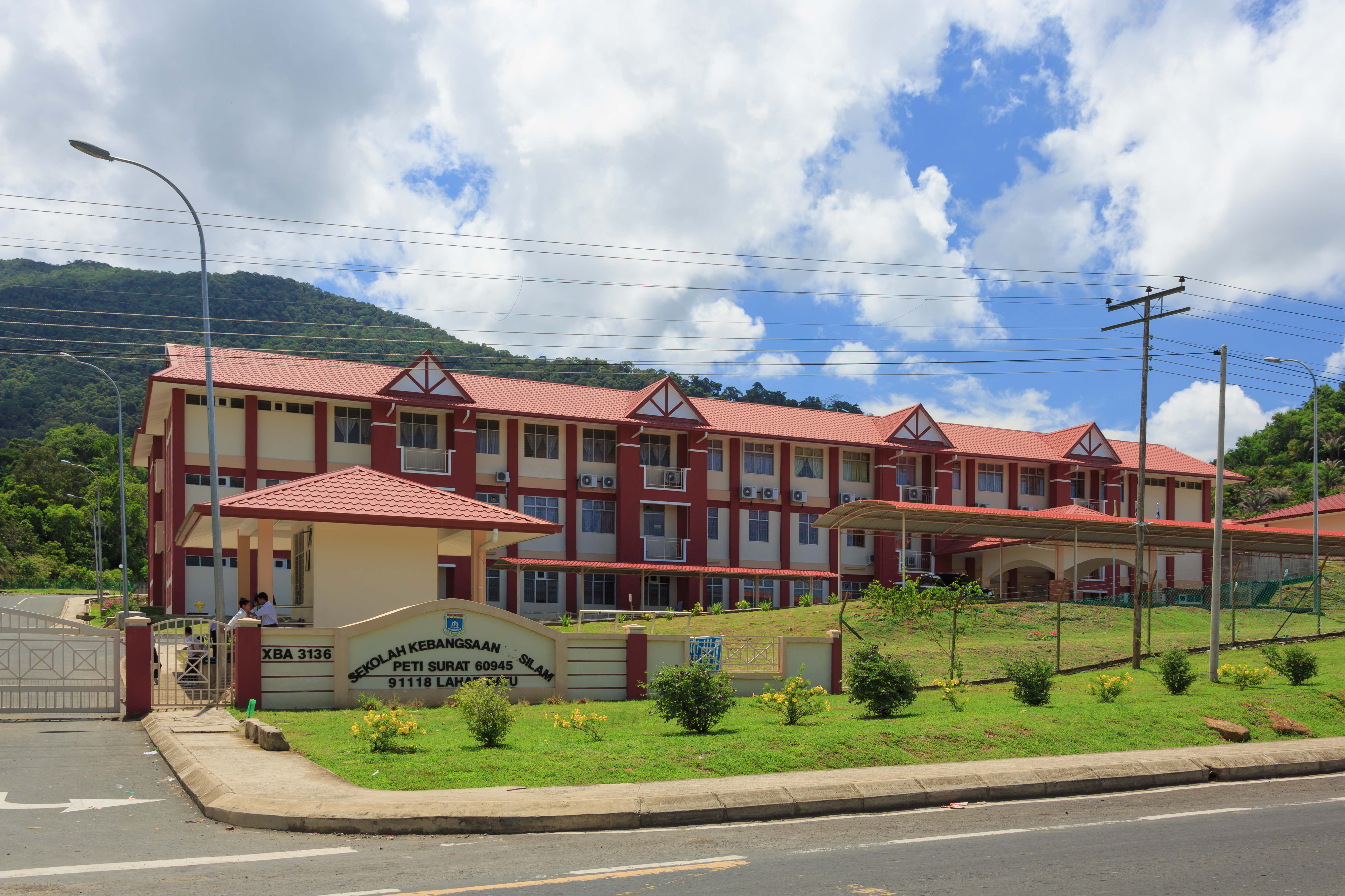 Silam, Lahad Datu, Sabah: Sekolah Kebangsaan Kampung Silam (SK Kg Silam), a primary school in Lahad Datu District